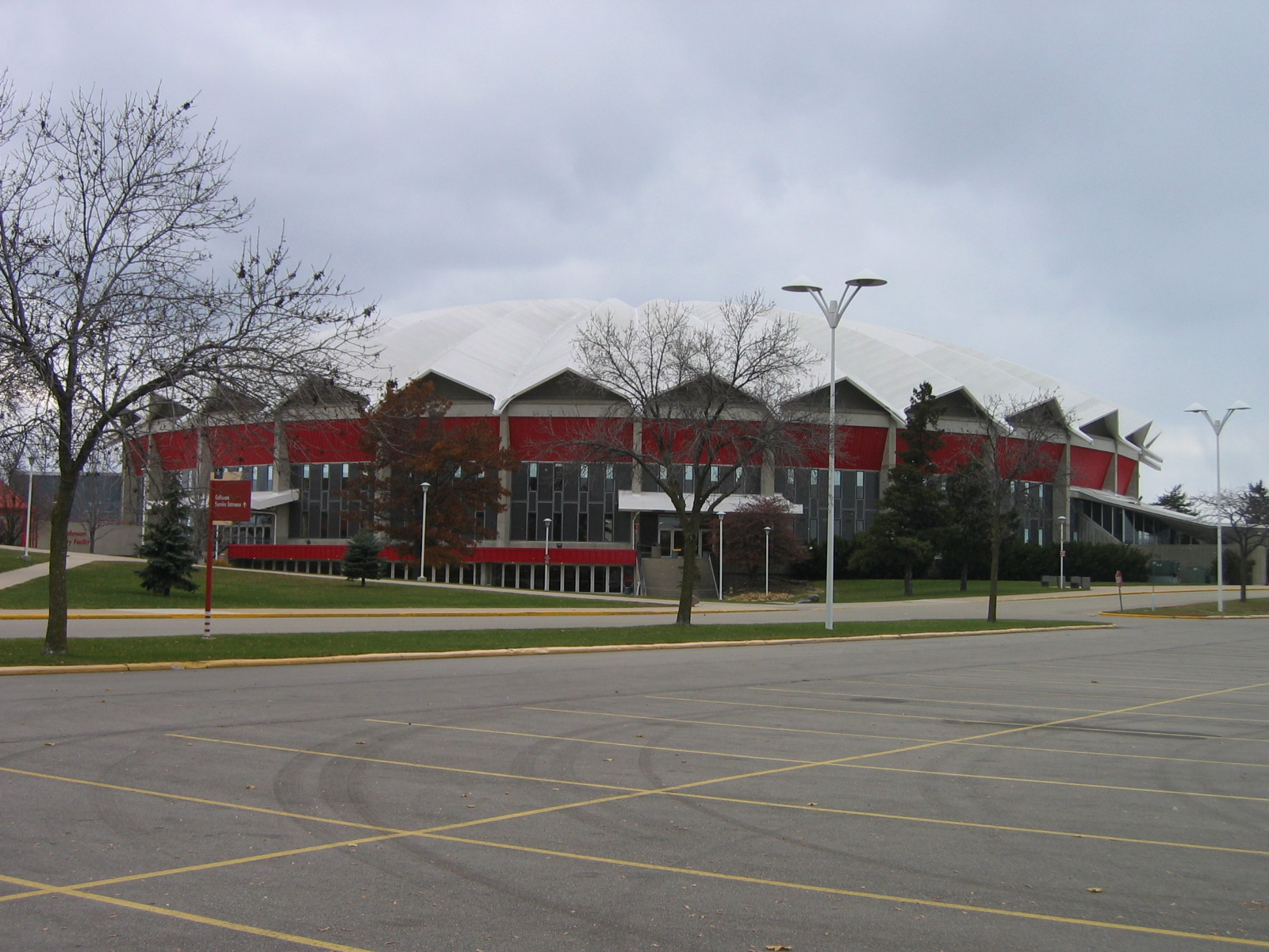 Football & Basketball Facilities DTE Energy Center